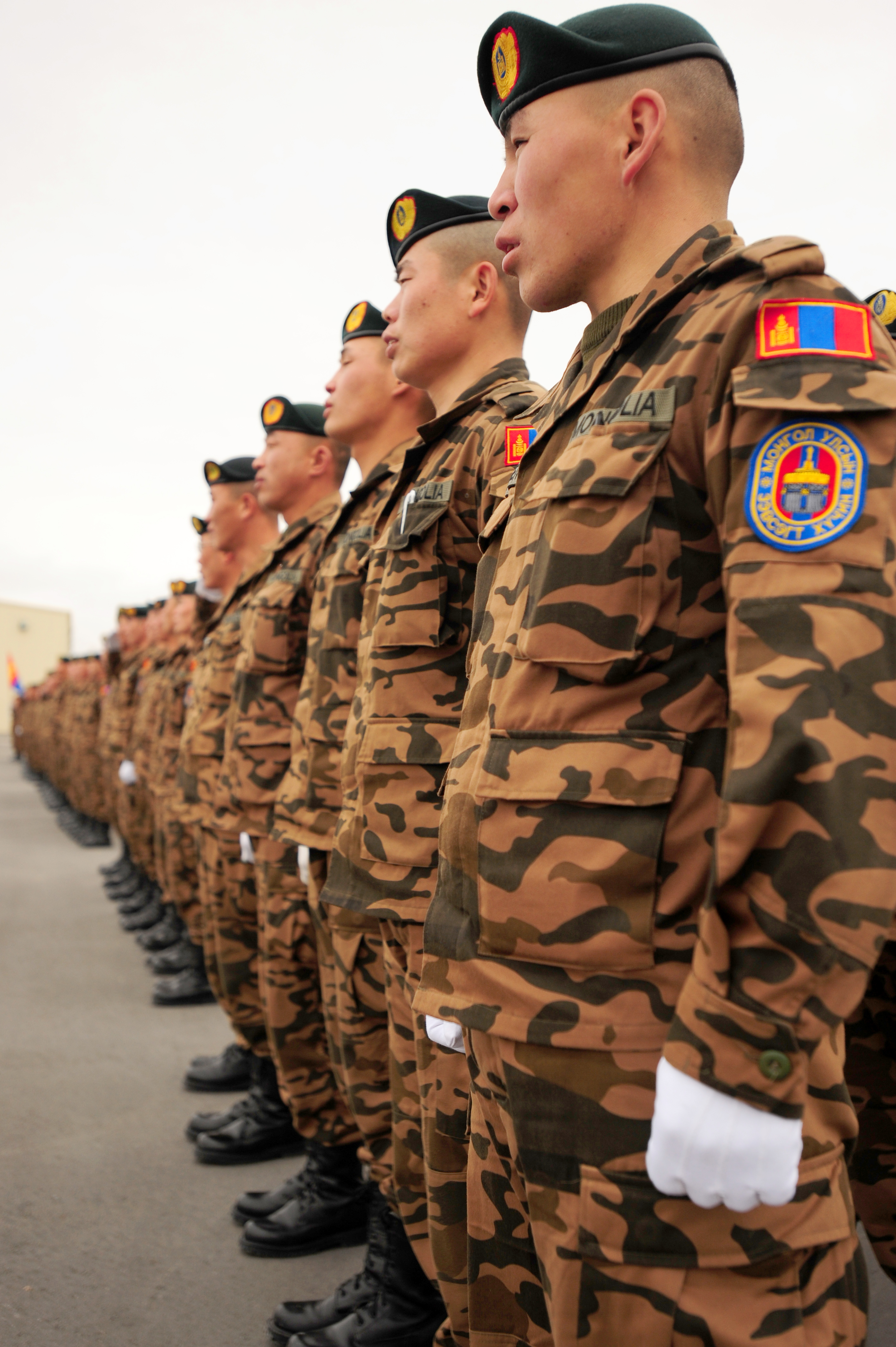 TRANSIT CENTER AT MANAS, Kyrgyzstan -- Mongolian Army soldiers stand in formation during a roll-call at the Transit Center. The Transit Center hosts all coalition partners as a part of onward movement missions at Manas in support of Operation Enduring Freedom.